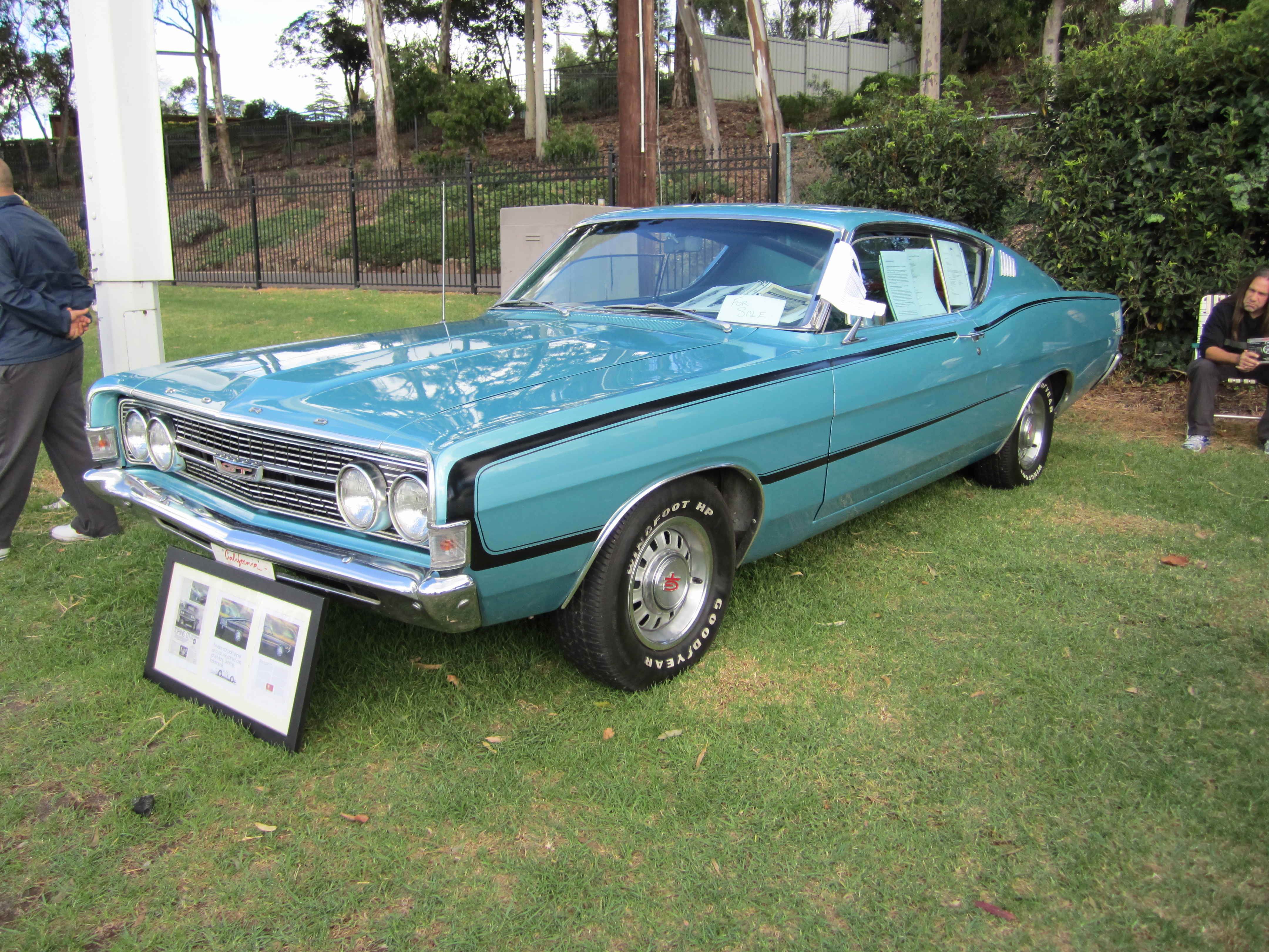 Built from 1968-76 the Torino was the top of the line Fairlane up to 1970. Available in Sedan, Hardtop, Fastback, Convertible & Wagon. Engines; 200 6 cyl, 302, 390 & 428 V8s